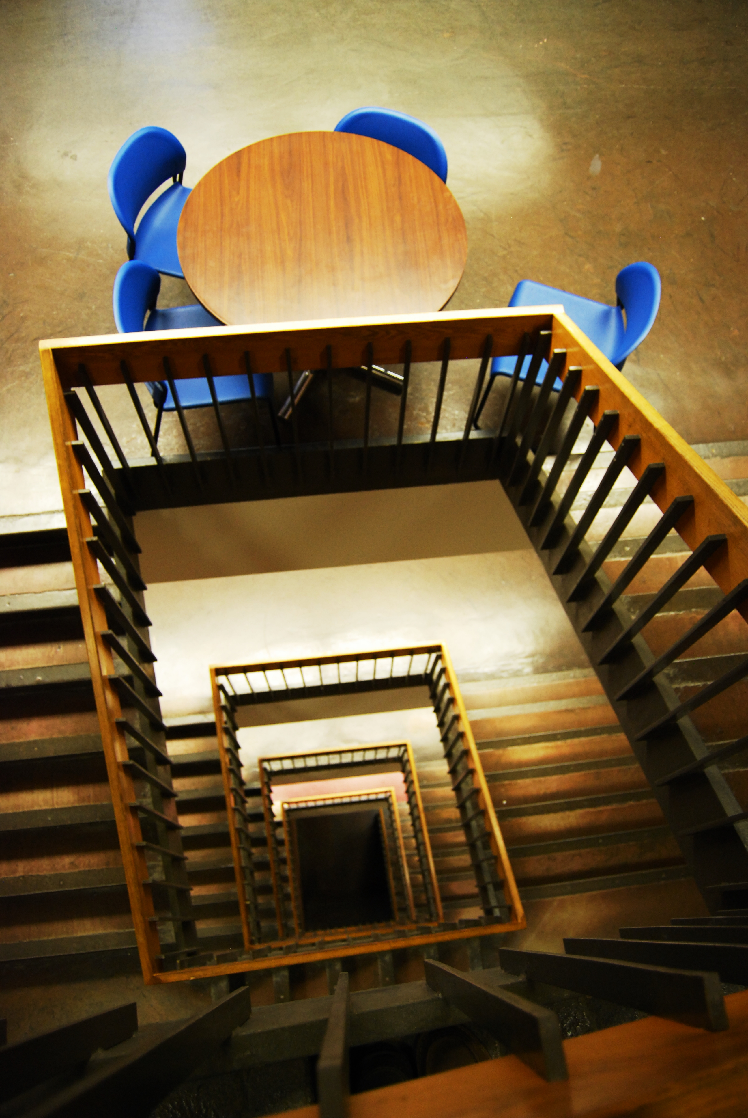 Stairwell in the Fine Arts Building at UMBC